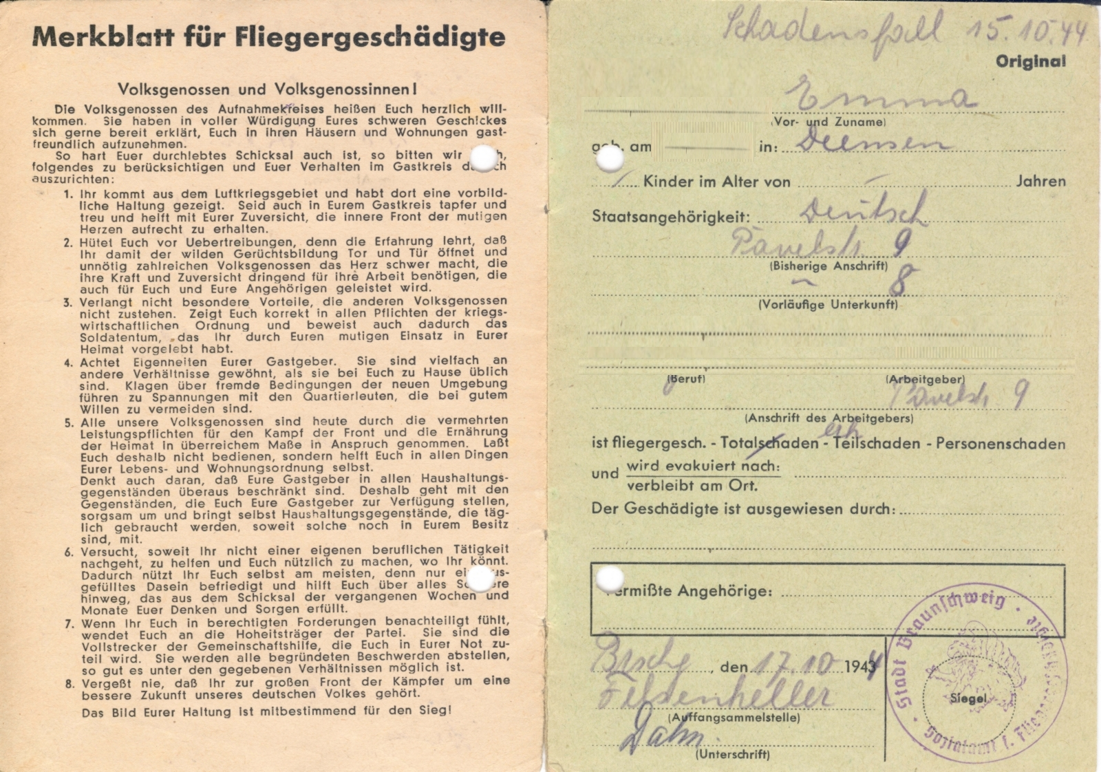 So-called “Bombing Card” for victims of bombing raids on Braunschweig. Handwritten entry "„Schadensfall 15.10.44“" (damage occurred on 15 October 1944.